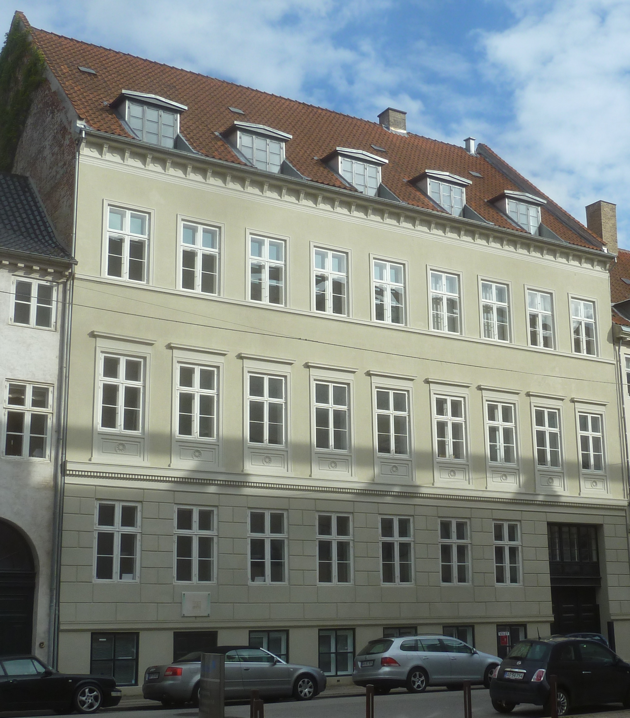 Strandgade 6 in Christianshavn, Copenhagen, Denmark